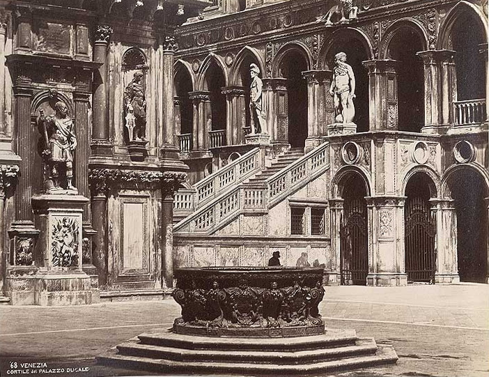 Carlo Naya (1822-1881) - "Venice. Courtyard of the Doges' Palace". Catalogue # 68.